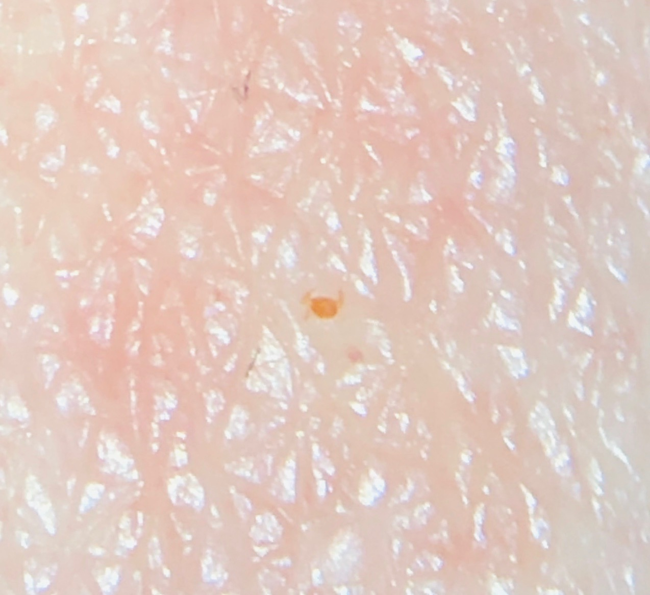 photo of a Trombiculid mite larva attached to human skin. Taken through a microscope via eyepiece projection. Found on my own body, June 2019 in Tennessee.